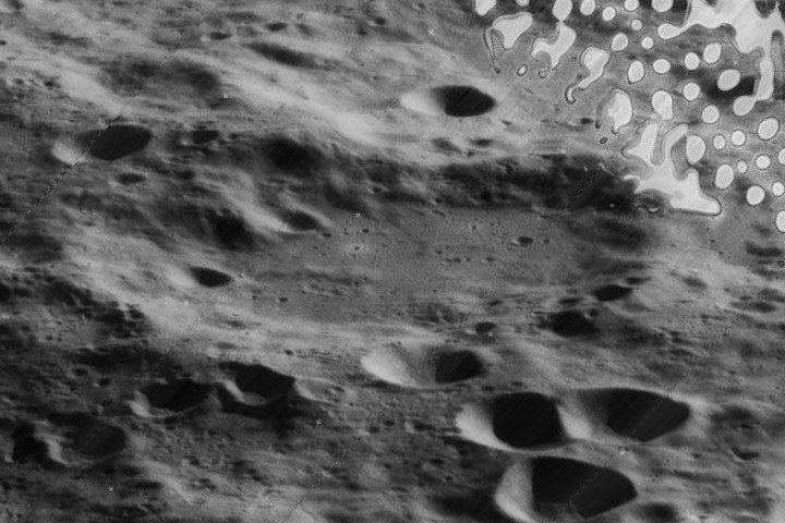 Evans, on the far side of the moon. Cluster of dots in upper right is blemish on original.